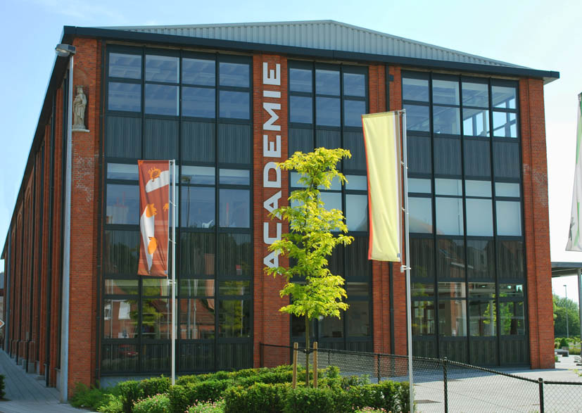 Arendonkse Academie voor schone kunsten, gehuisvest in voormalig sigarenfabriek van Karel I sigaren.